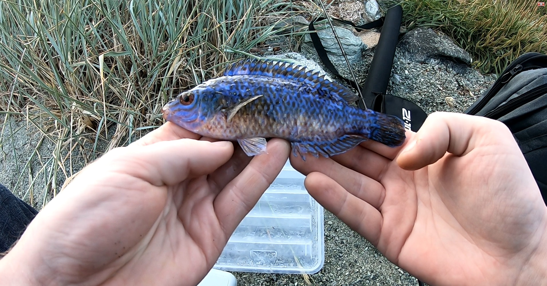 Norway, Rennesøy, 16.07.18 - Norwegian Fly Fishing Record as of sept. 2018